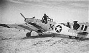 View of a Messerschmitt Bf 109G fighter. This aircraft had been shot down in Tunisia in 1 March 1943. After being repaired, the plane (named "Irmgard" by its German pilot) was flown by pilots of the USAAF 79th Fighter Group.